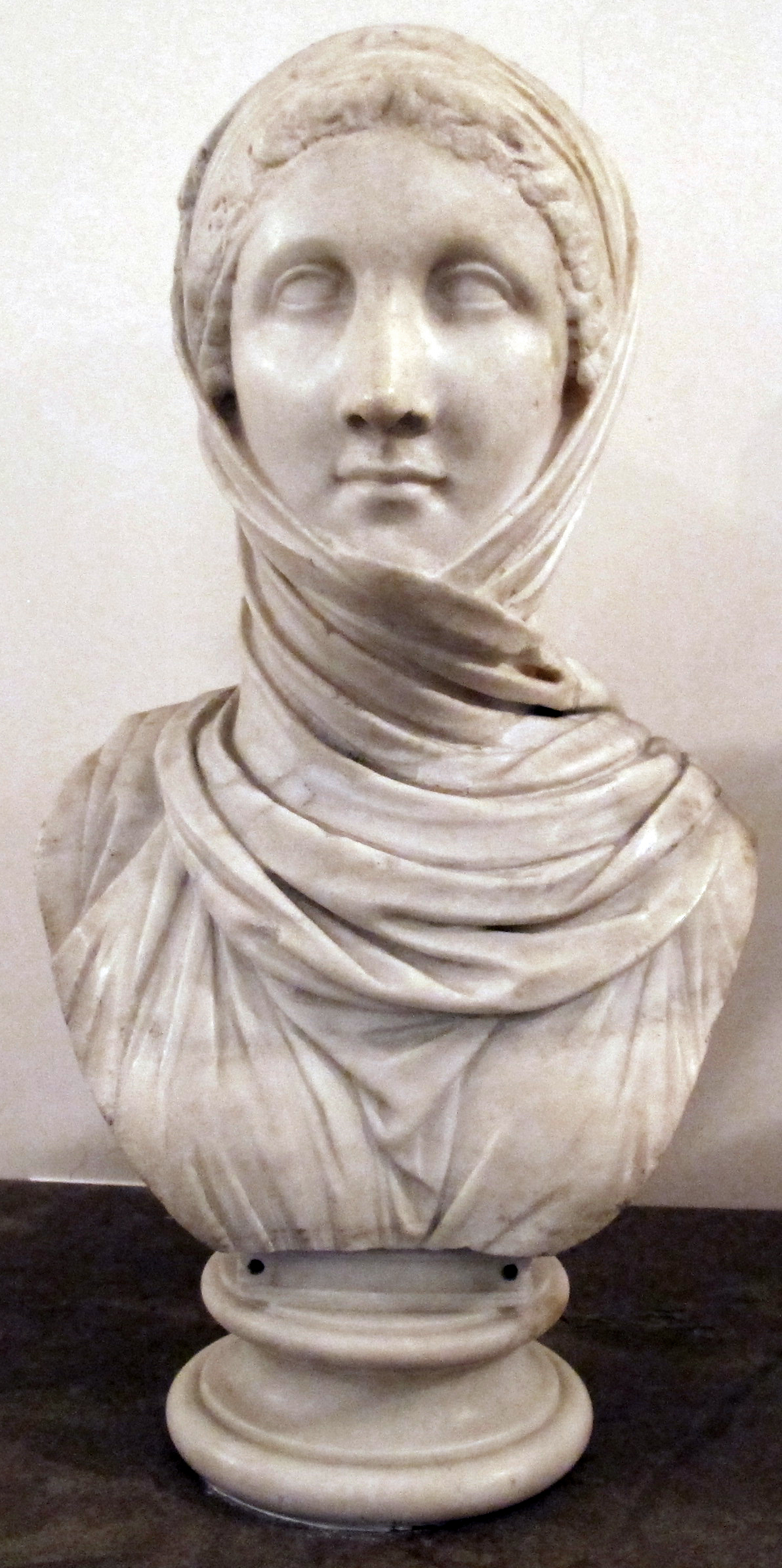 Ancient Roman busts in the Museo Archeologico (Naples)